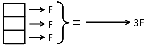 Newton's second law. If the mass triples, the force must also triple to achieve the same acceleration.